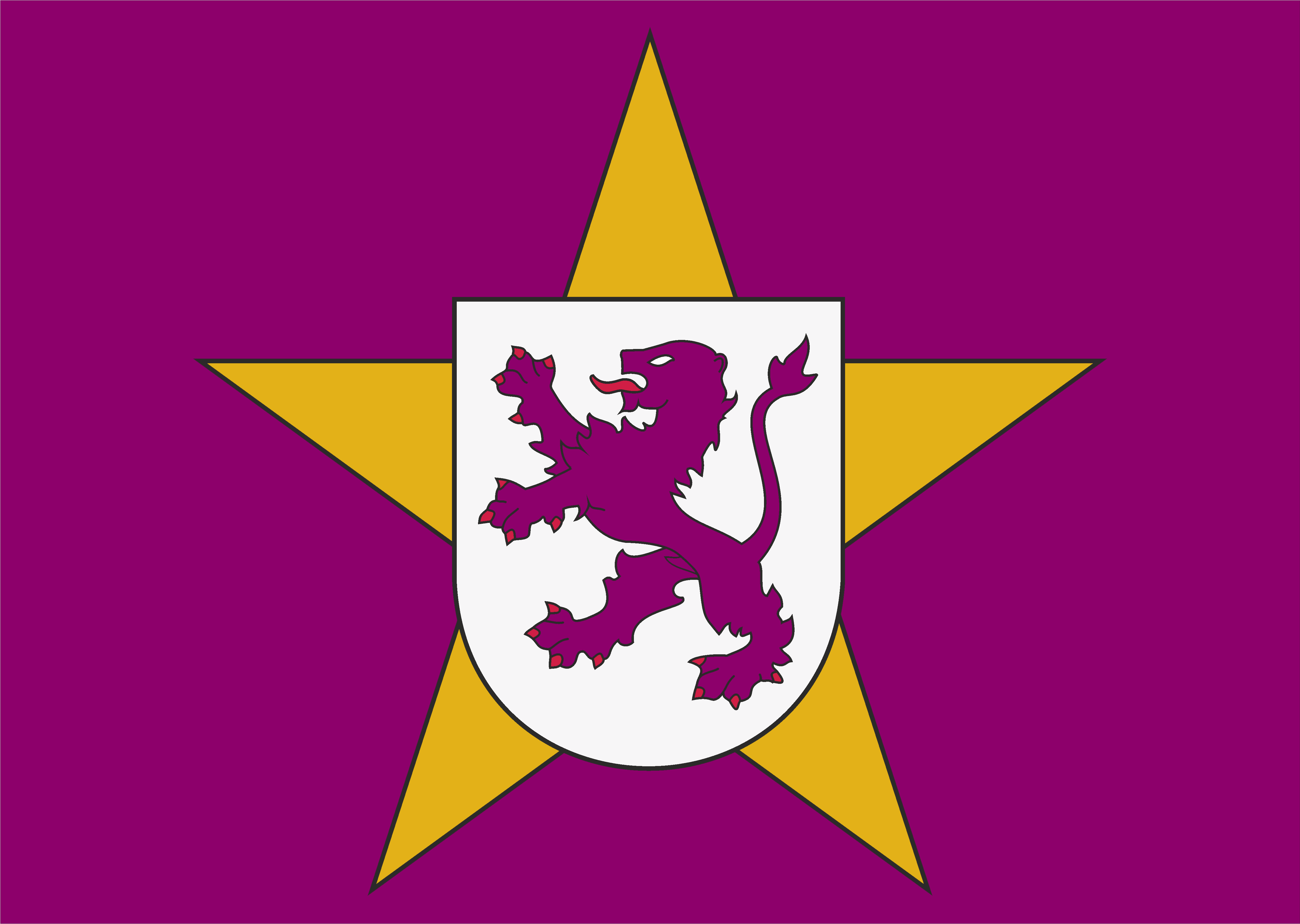 Flag of the leonese separatist movement.